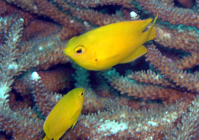 Lemon damsel (Pomacentrus moluccensis), Pulau Aur, West Malaysia